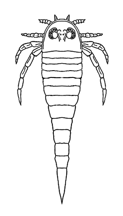 Reconstruction of eurypterid Kiaeropterus